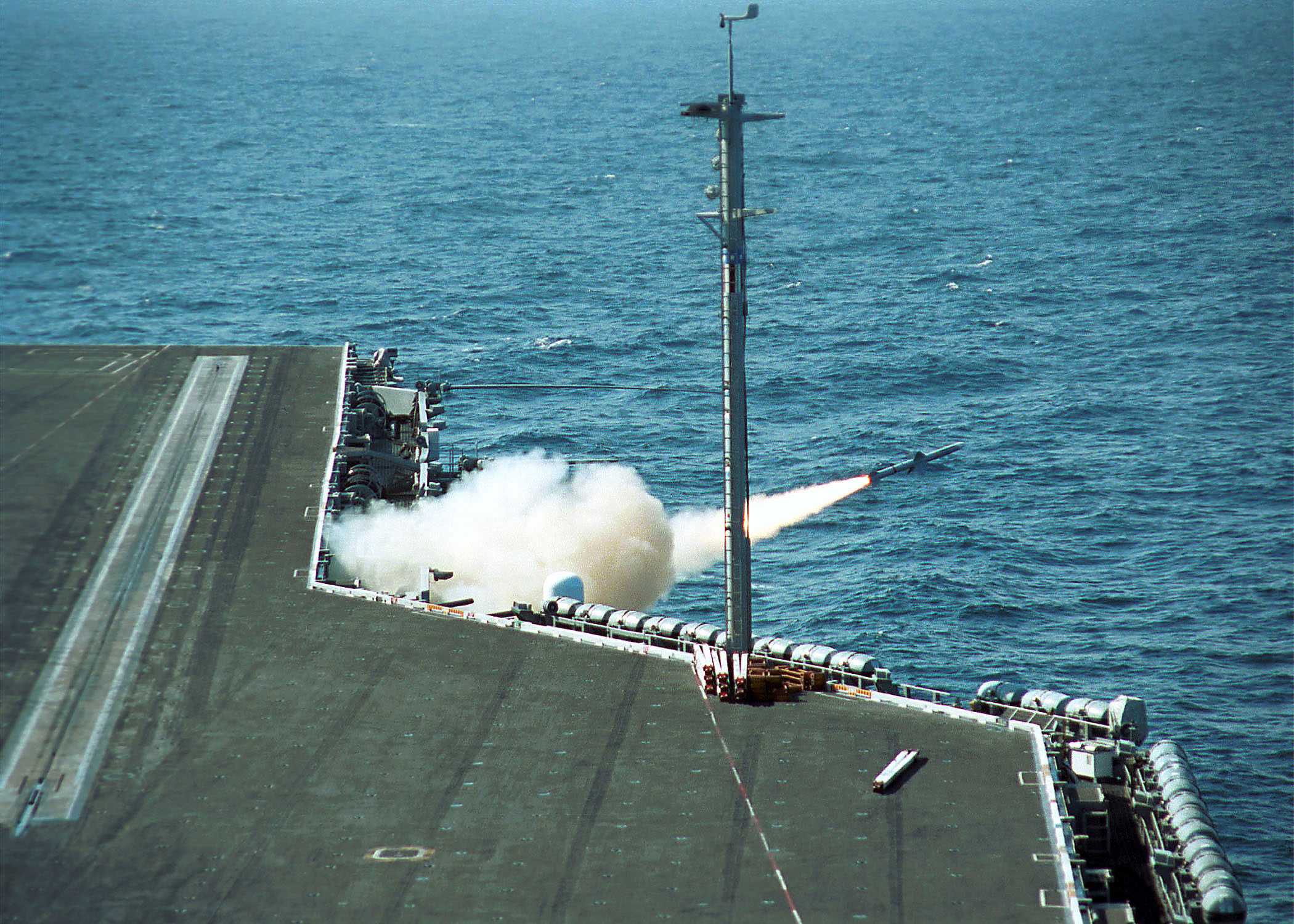 At sea aboard USS George Washington (CVN 73) Jun. 21, 2002 -- A NATO “Sea Sparrow” Missile launches from aboard USS George Washington during an exercise at sea. Washington is homeported in Norfolk, Va. and is currently on a regularly scheduled deployment in support of Operation Enduring Freedom. U.S. Navy photo by Photographer's Mate Airman Lindsay Switzer. (RELEASED)